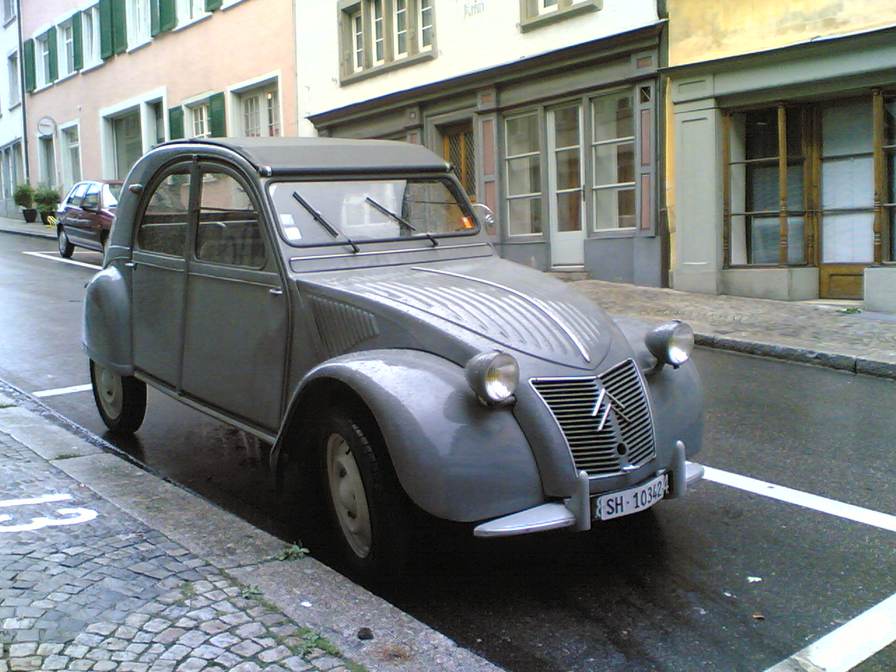 Author, Cme